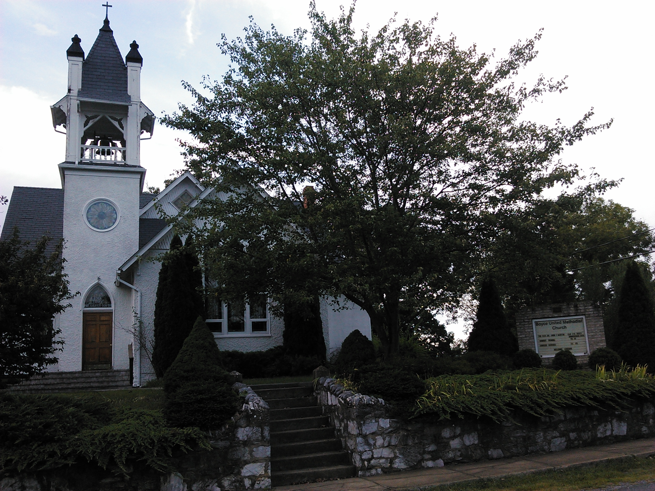 8 Old Chapel Road, Boyce, Virginia. Built in 1916